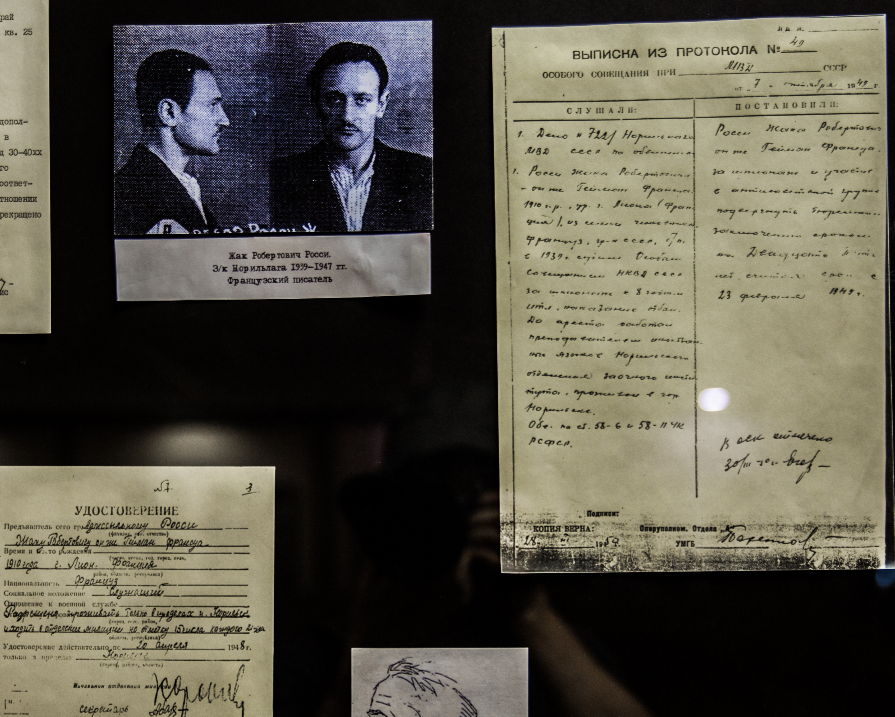 Jacques Rossi, prisoner of Norillag